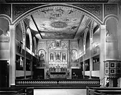 Interior of the Mission Santa Clara de Asis with Baroque altar, northern California. Circa 1897 photograph by Adam Clark Vroman.